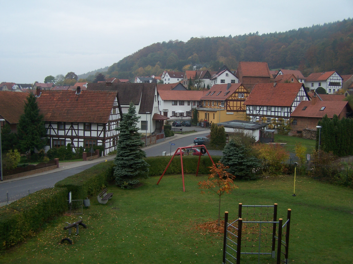 In the village Frauensee.